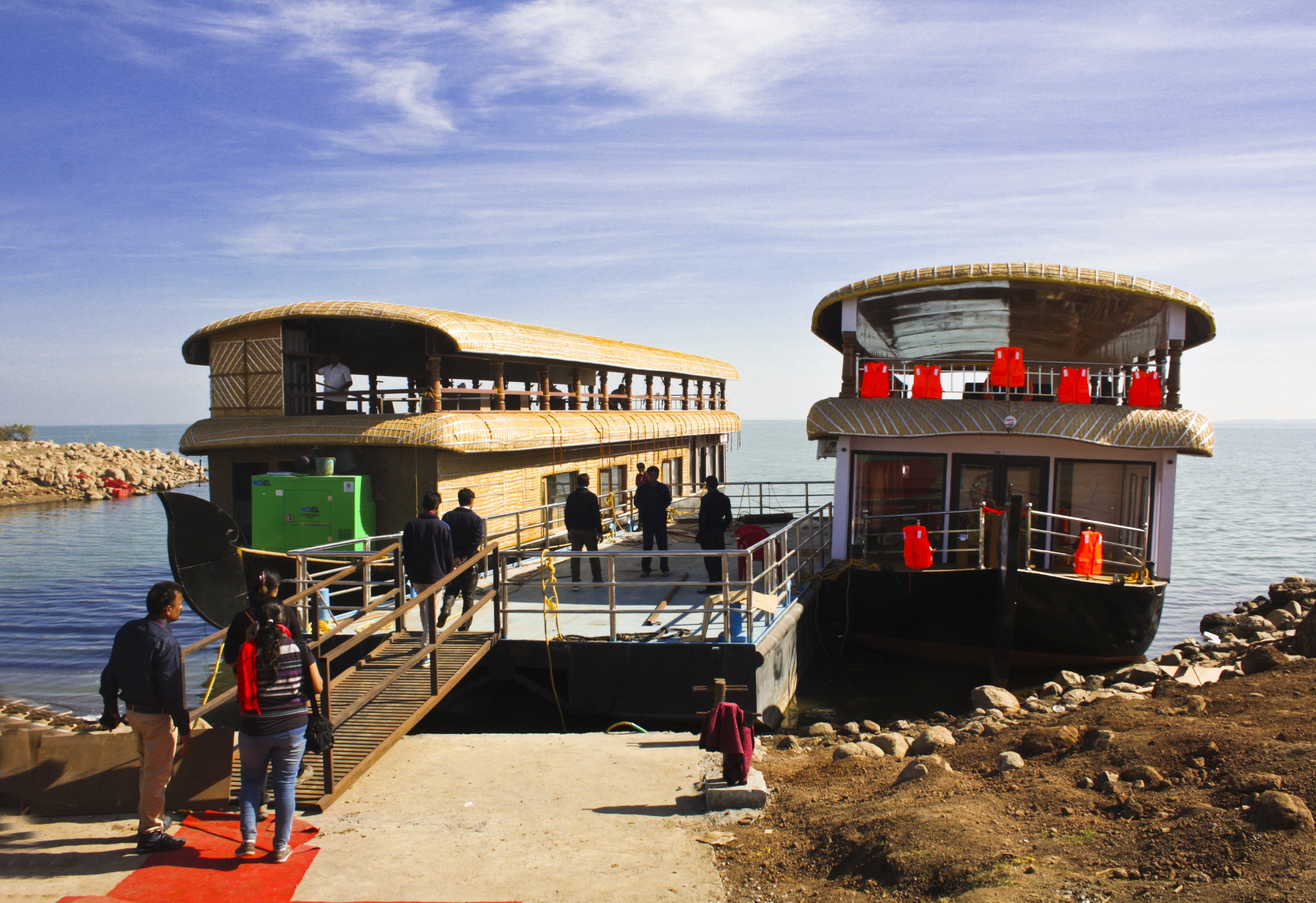 This Photo has been taken during "Jal Mahotsav" second season organised by Madhya Pradesh Tourism Development Corporation, held from the 15th December 2016 to 15th Januaary 2017 at Hanuwantiya, Dist. Khandwa, Madhya Pradesh, India.